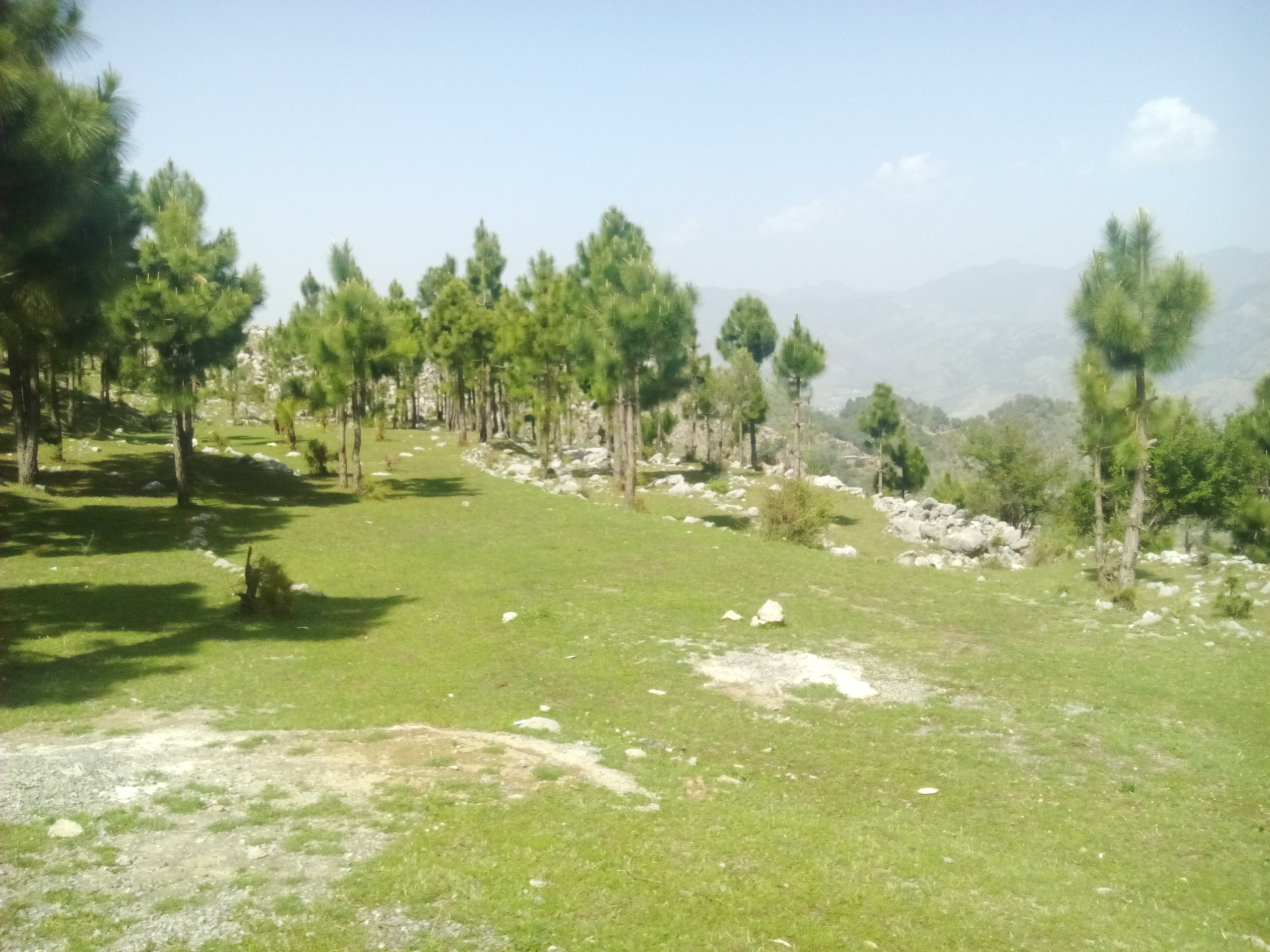 Sarban hill